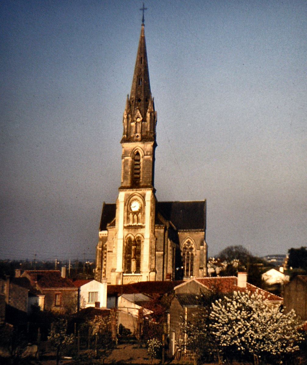 Church of Saint-Rémy-en-Mauges (Maine-et-Loire, France).